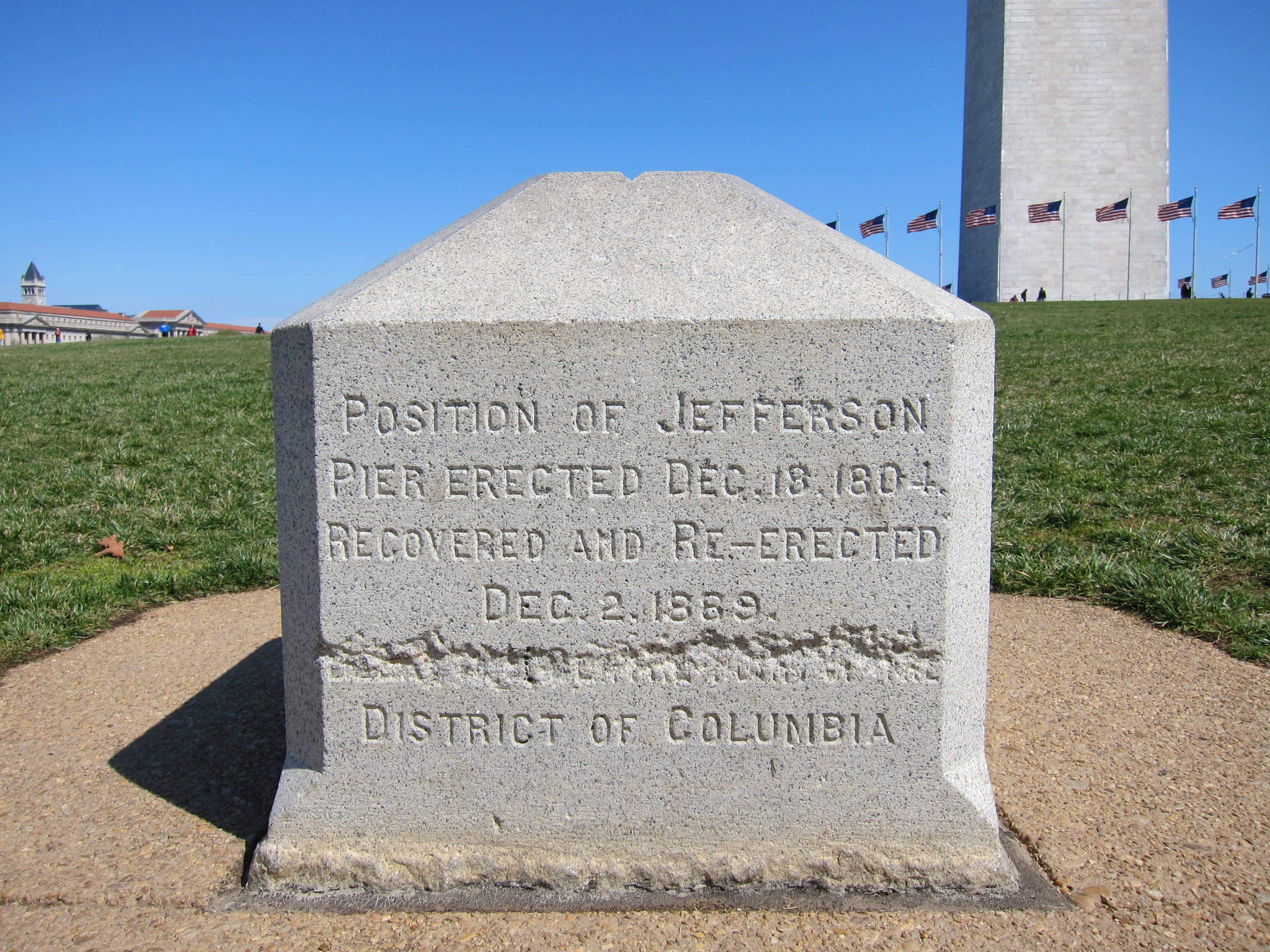 West front of the Jefferson Pier, as seen in April 2011, with the Washington Monument visible in the background.